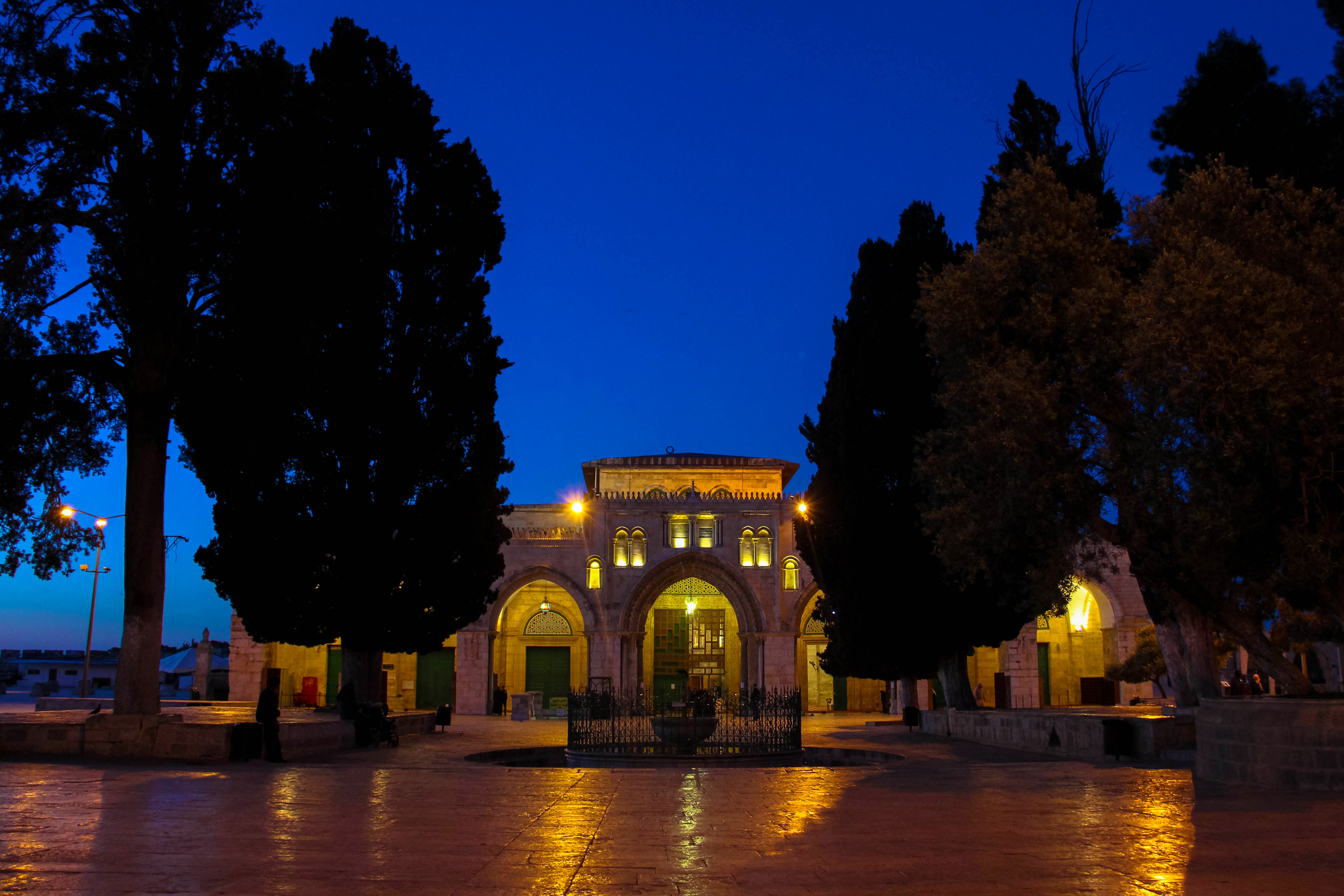 Al-Qibli chapel at dawn